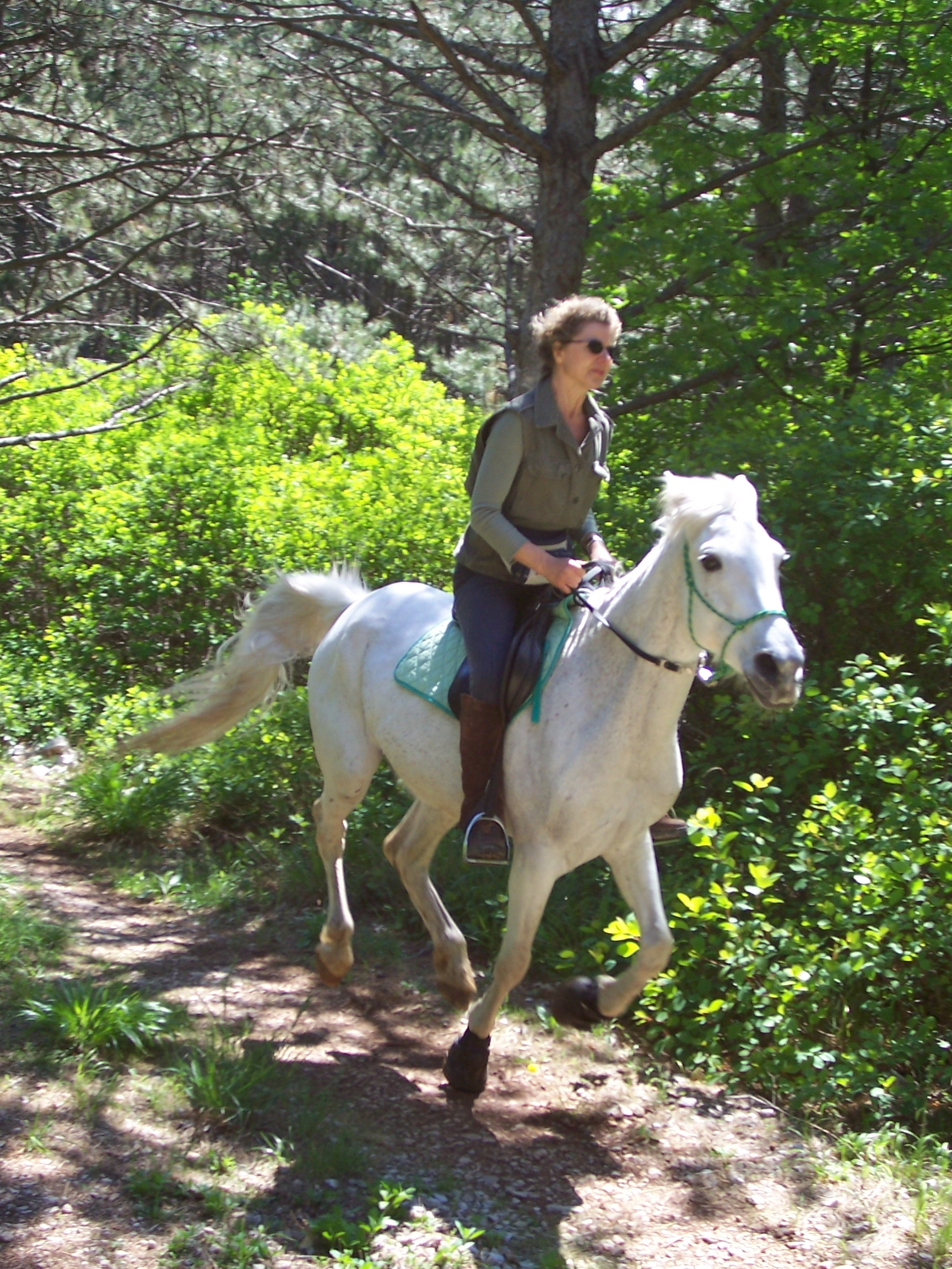 An Italian rider cantering on a barefoot mare into the Monfalcone Karst (Kras), Monfalcone, Italy. Hard ground. Note booted fronts (transition period after de-shoeing).